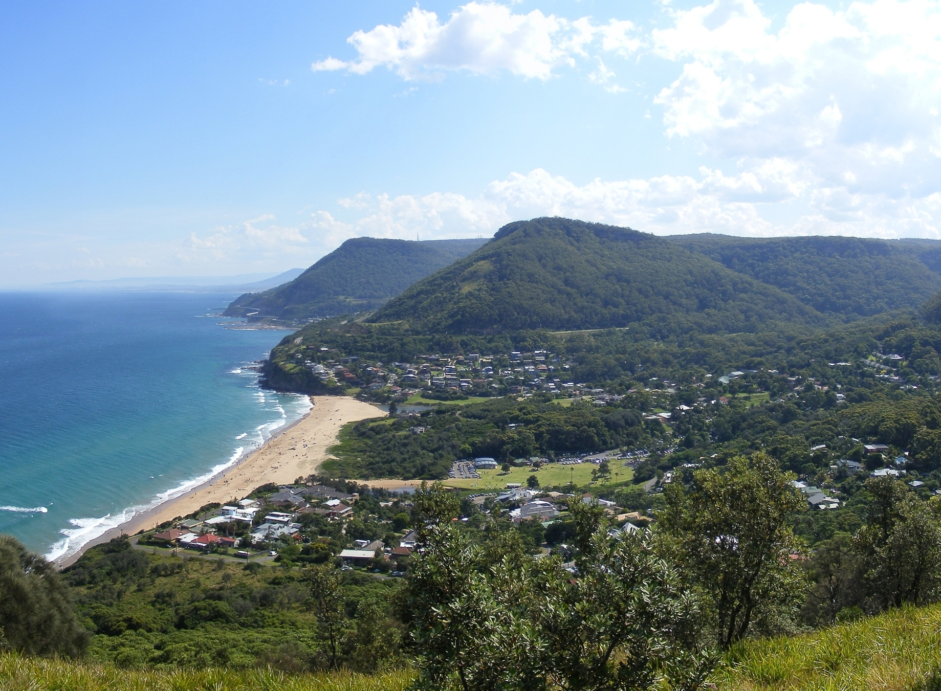 Wollongong, New South Wales